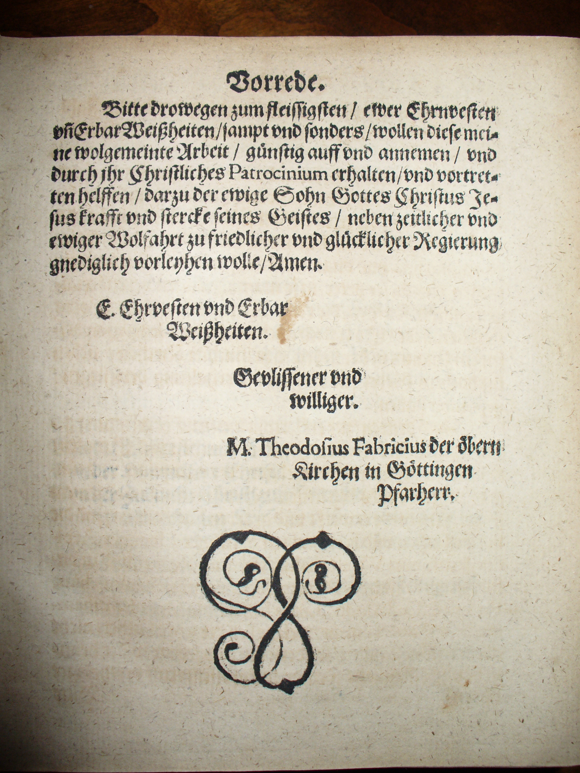 Preface written by Theodosius Fabricius to a Loci Communes published by Theodosius Fabricius (Theodor Faber) in 1597 in Magdeburg, Germany.